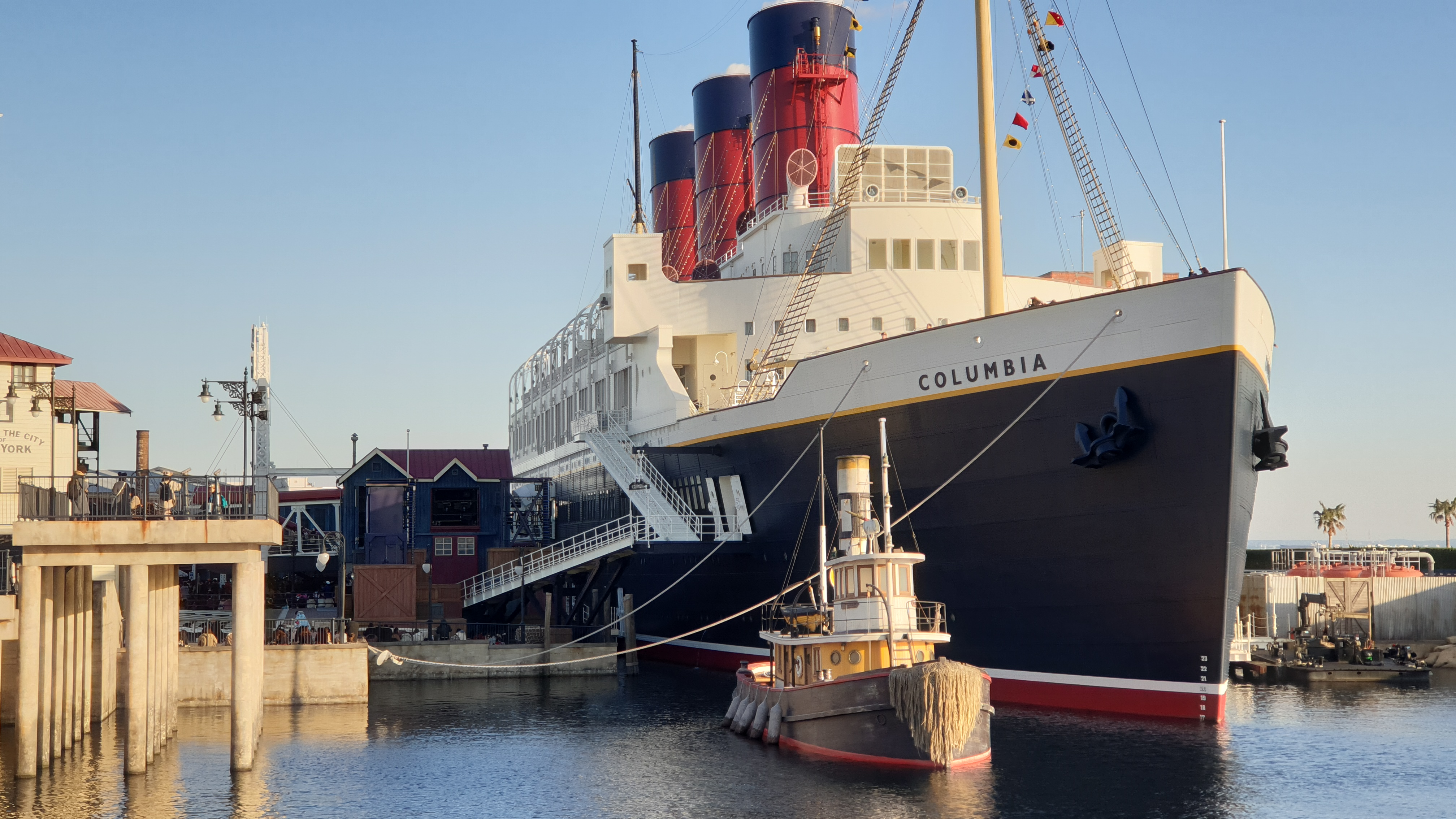 SS Columbia at Tokyo DisneySea (Nov 2019)